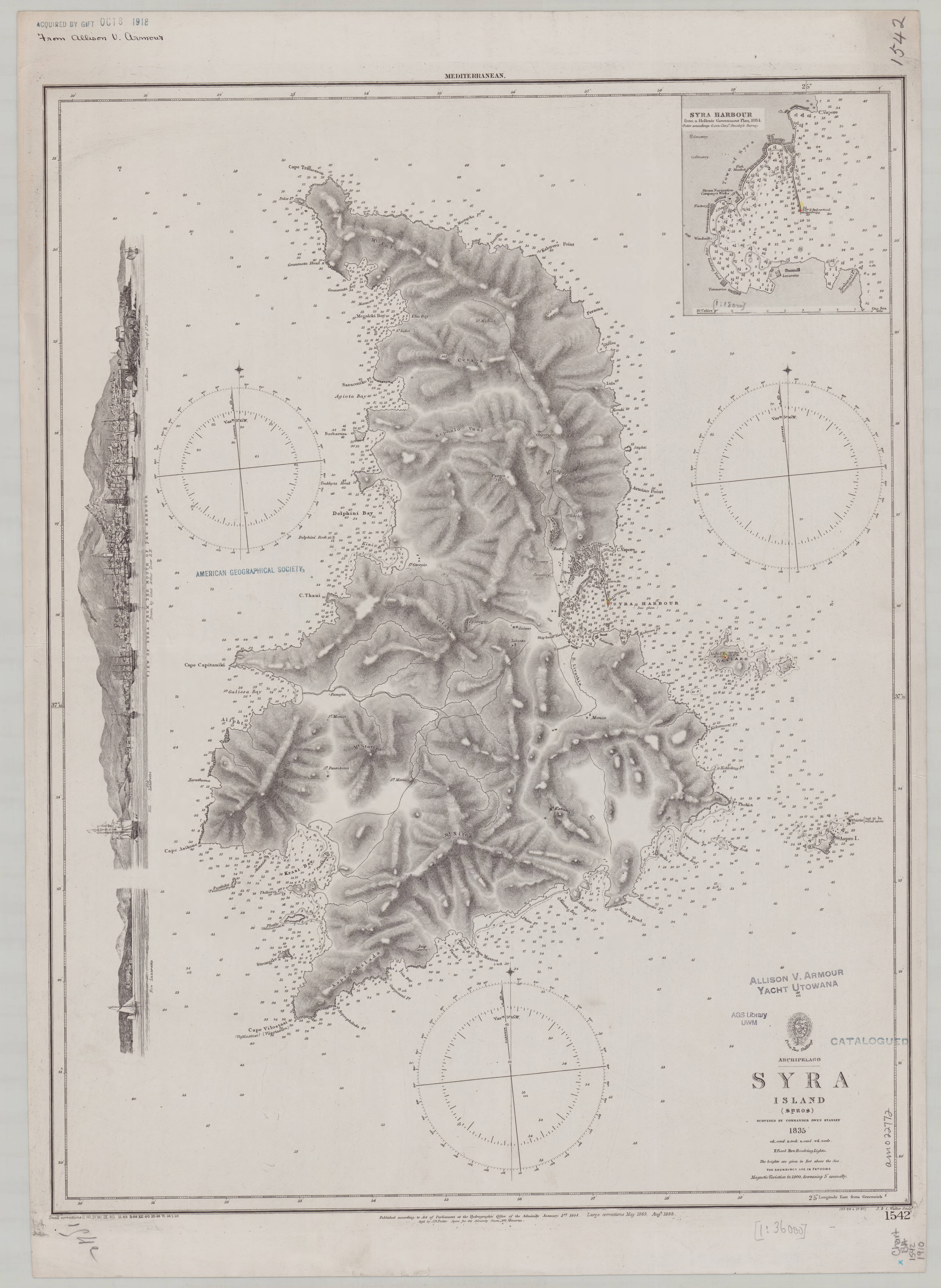 Nautical chart of Syros Island, Greece. Surveyed by Commander Owen Stanley, 1835. Not current - not to be used for navigation!